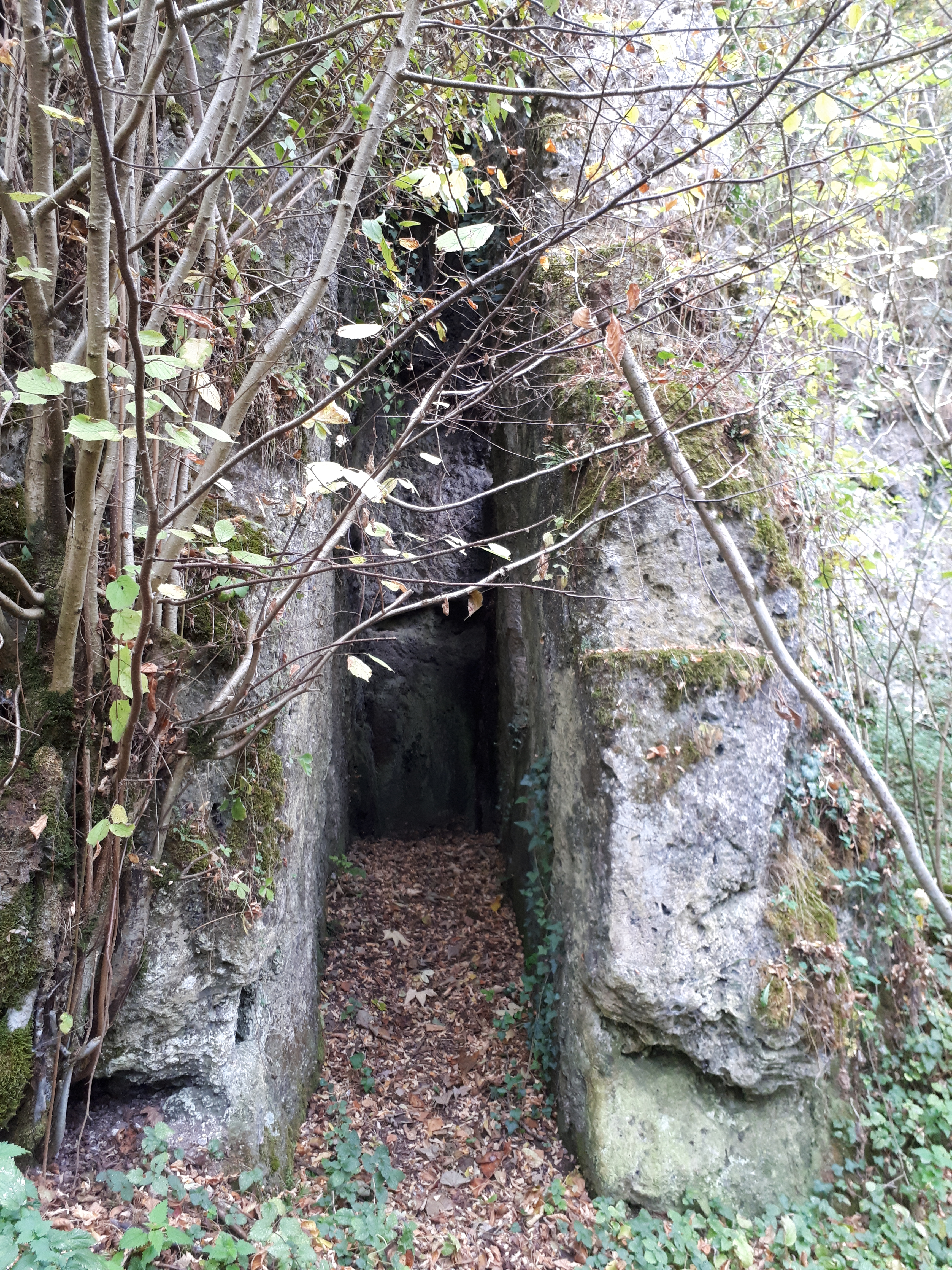 Entrance to the rock cellar of the old oil mill on the Sudelfelsen near the village of Ihn (Saarland)